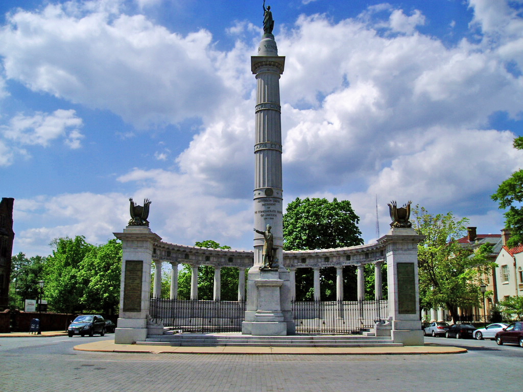 Jefferson Davis monument on Monument Avenue, Richmond, Virginia. The sculptor was Edward Valentine.